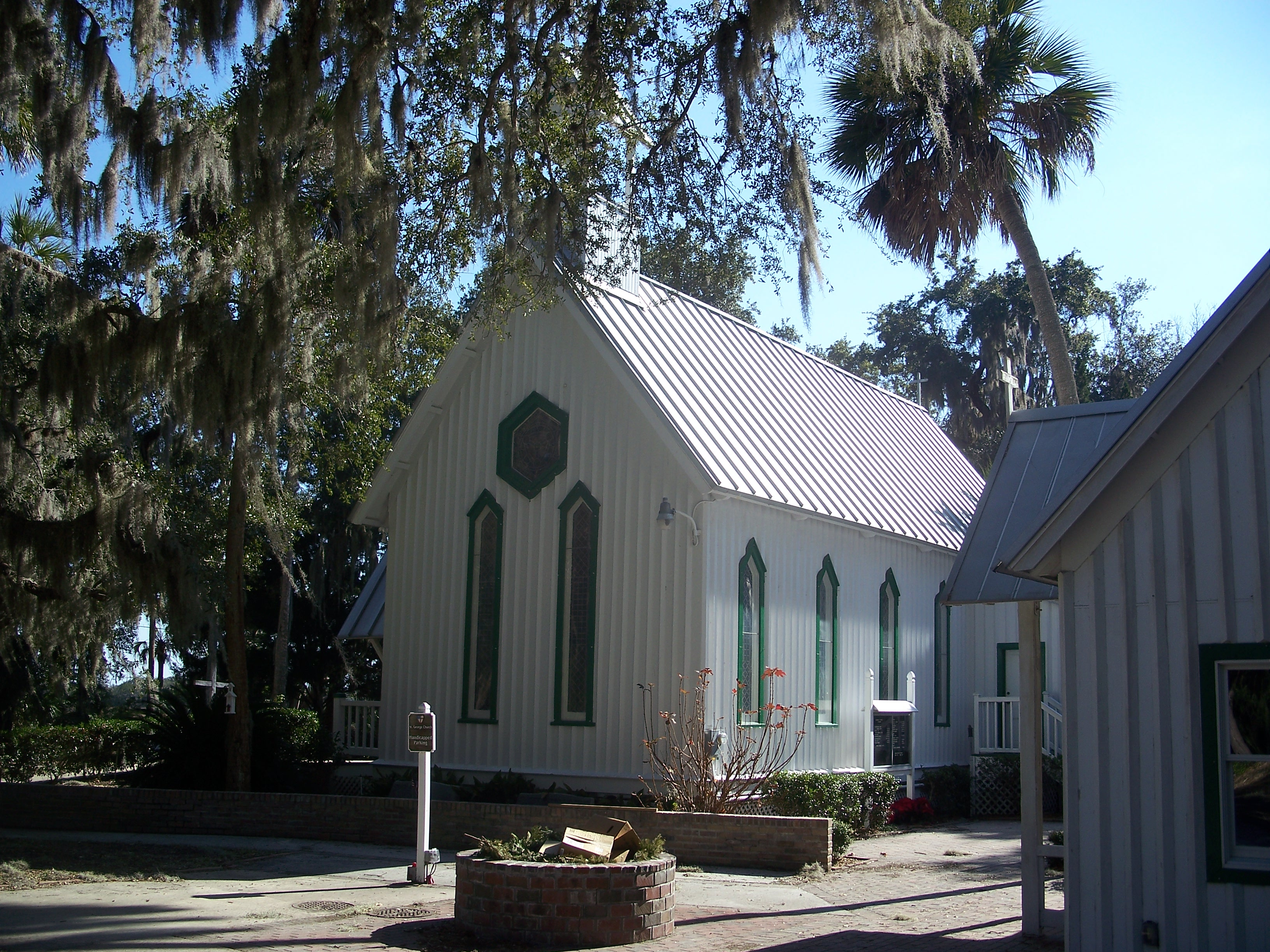 Fort George Island Cultural State Park: St. George Episcopal Church